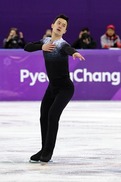 Patrick Chan (CAN) skates his short program at the 2018 Winter Olympic Games in PyeongChang (KOR)